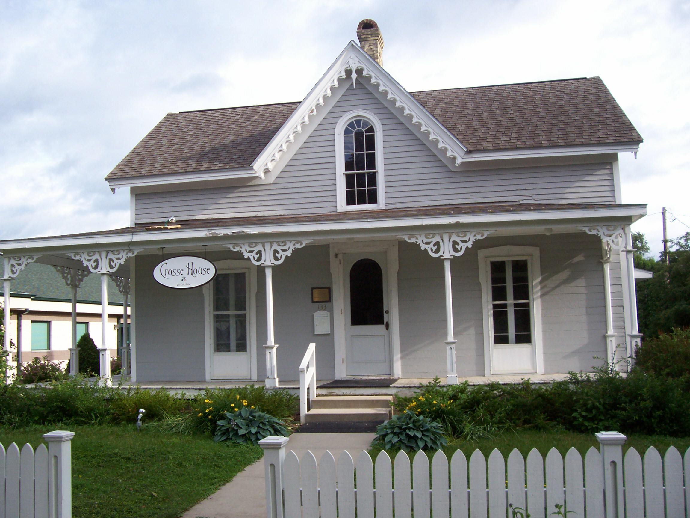 The Dr. Charles G. Crosse House in Sun Prairie, Wisconsin, a registered historic place.